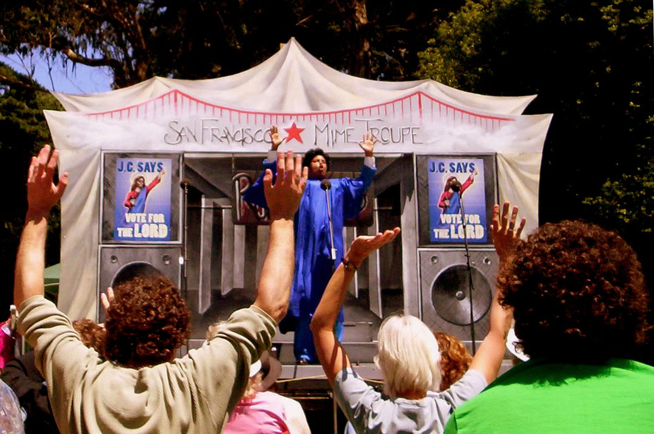 2006 San Francisco Mime Troupe performance of "Godfellas"